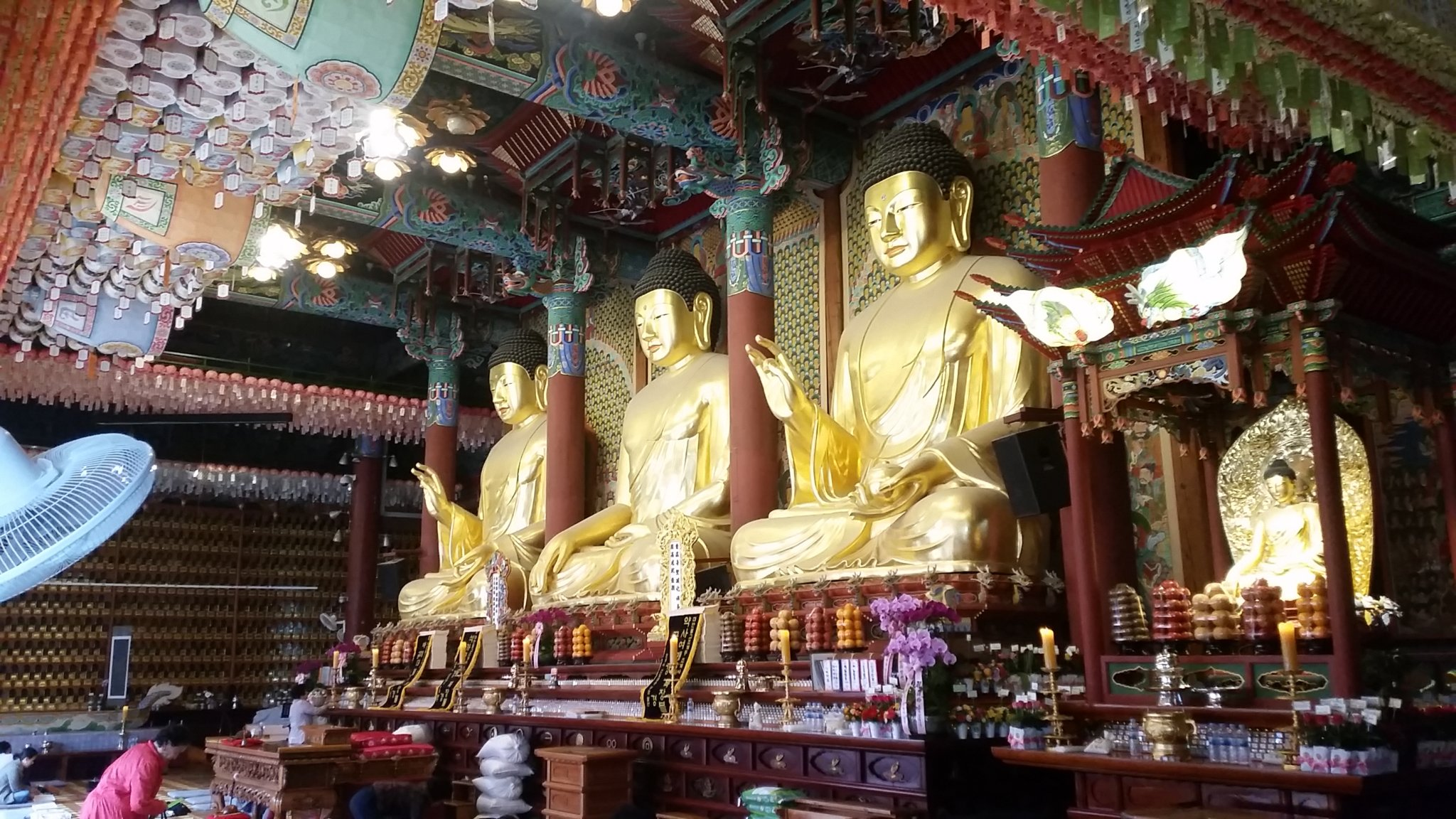 Jogyesa interior